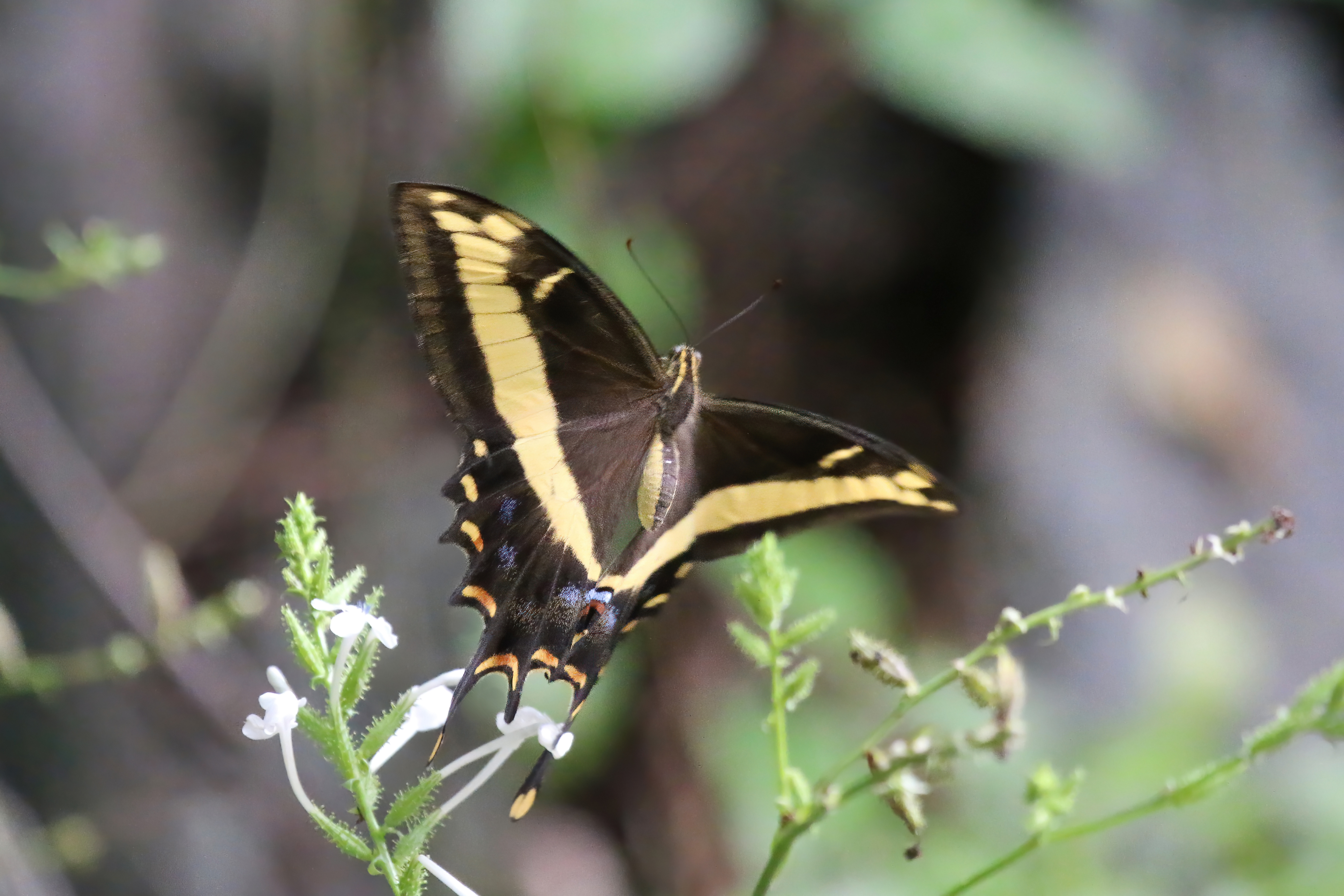 Bahaman swallowtail (Papilio andraemon), Strawberry Hill, Jamaica